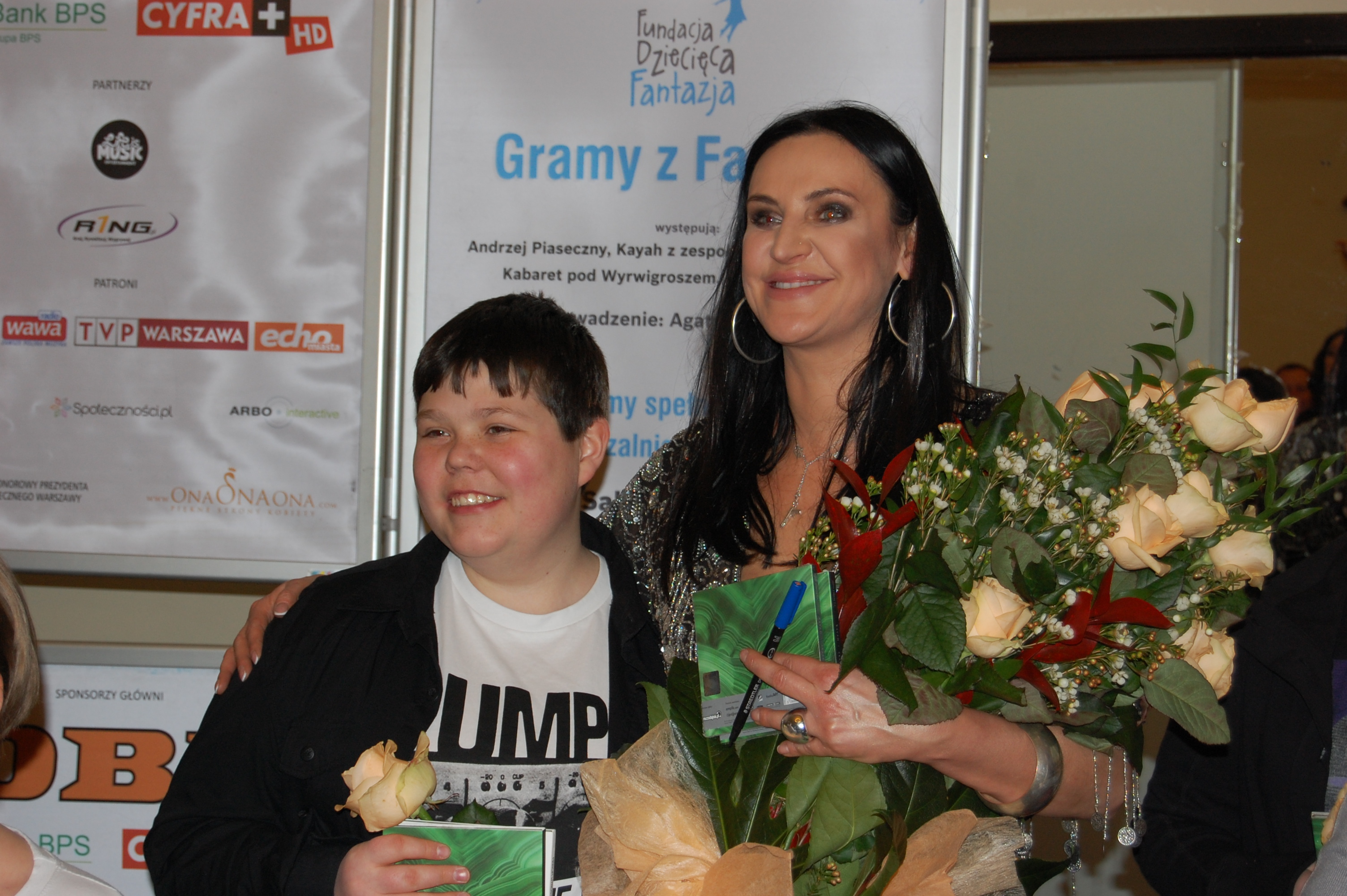 On Saturday, March 3, 2012, Kayah performed at the Congress Hall of the PKiN in charity gala We're playing with a Fantasy organized by the Children's Fantasies Foundation.